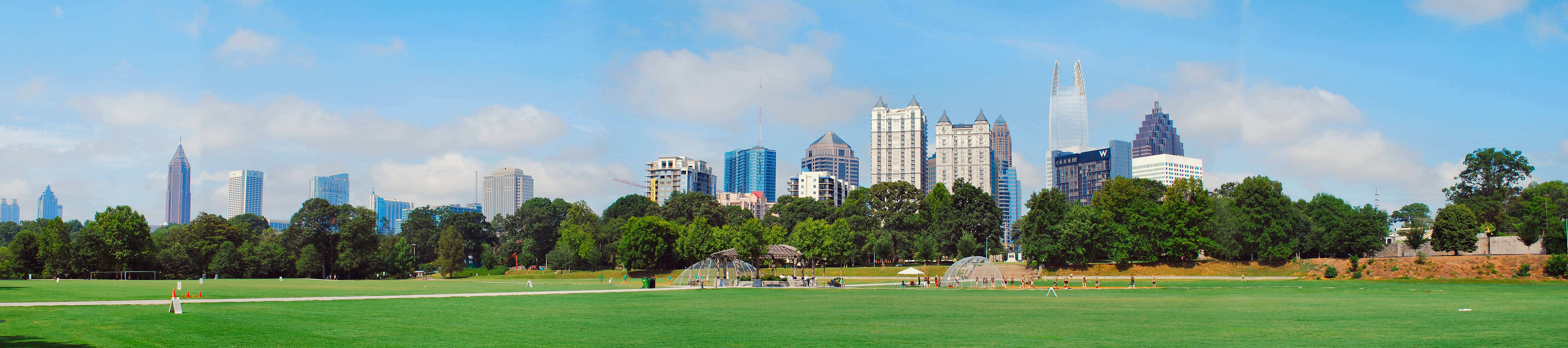 Atlanta skyline panorama from Piedmont Park. The photo is a manual stitch of 6 frames taken during late morning in July of 2008. Facing west south west. Taken with a Nikon D60 using the Nikon VR 18-55 at approximately 24 mm. Edited in Paint Shop Pro Studio. Public uses include the backdrop for a Weather Channel segment on picnics, air date 8/27/14.